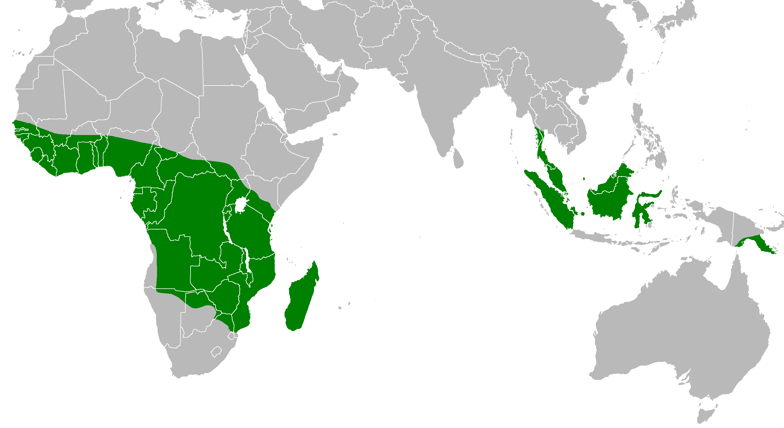 Distribution of the Bat Hawk (Macheiramphus alcinus). Based on: James Ferguson-Lees, David A. Christie: Raptors of the World. Houghton Mifflin Harcourt, 2001, p. 350